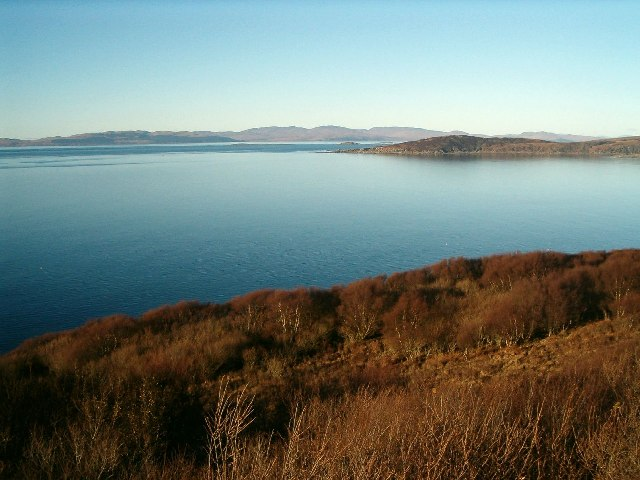 View from Knapdale towards the Point of Knap and (distant) the Isle of Jura